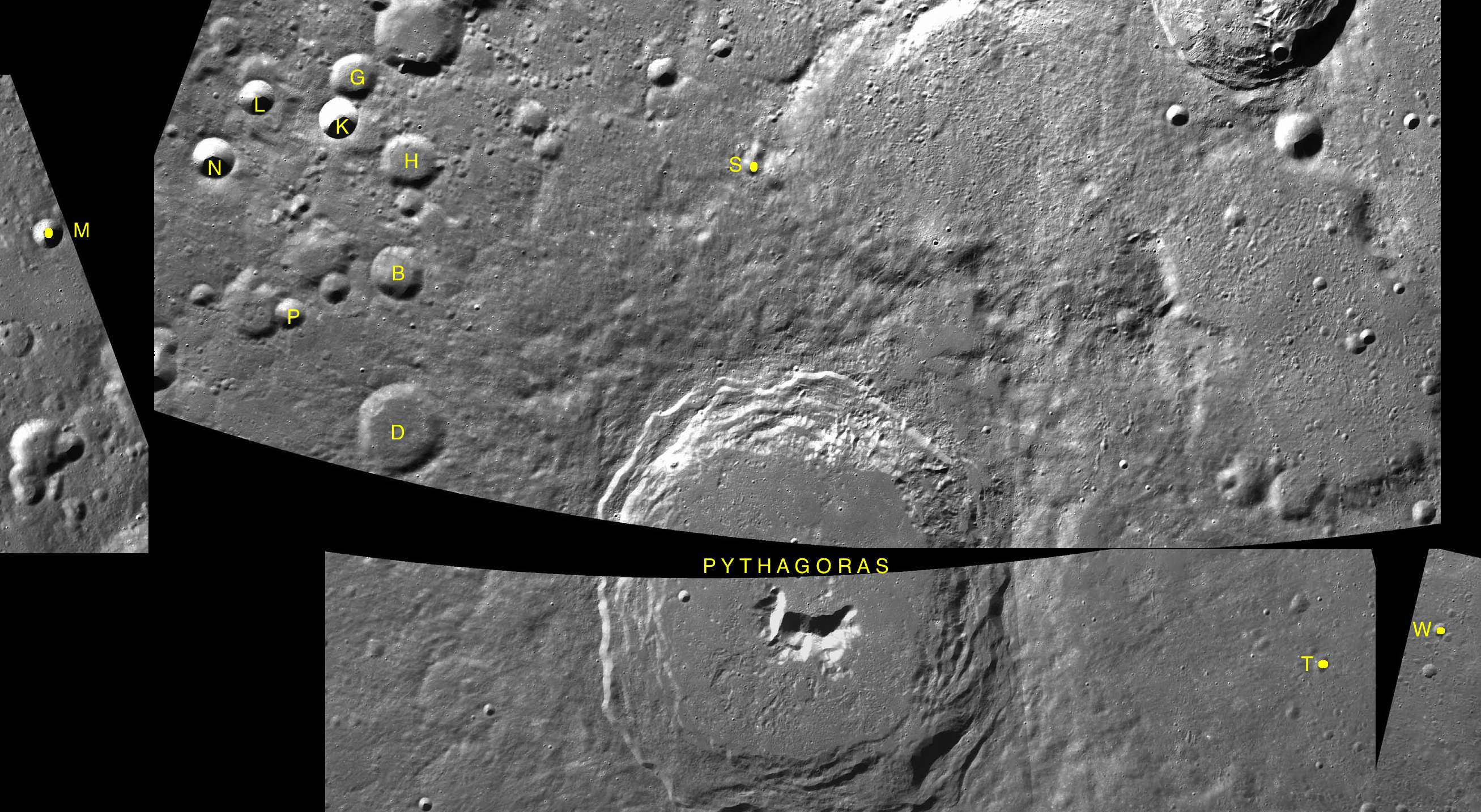 Parts of the charts LAC-2, LAC-9, LAC-10, LAC-11 used for the presentation